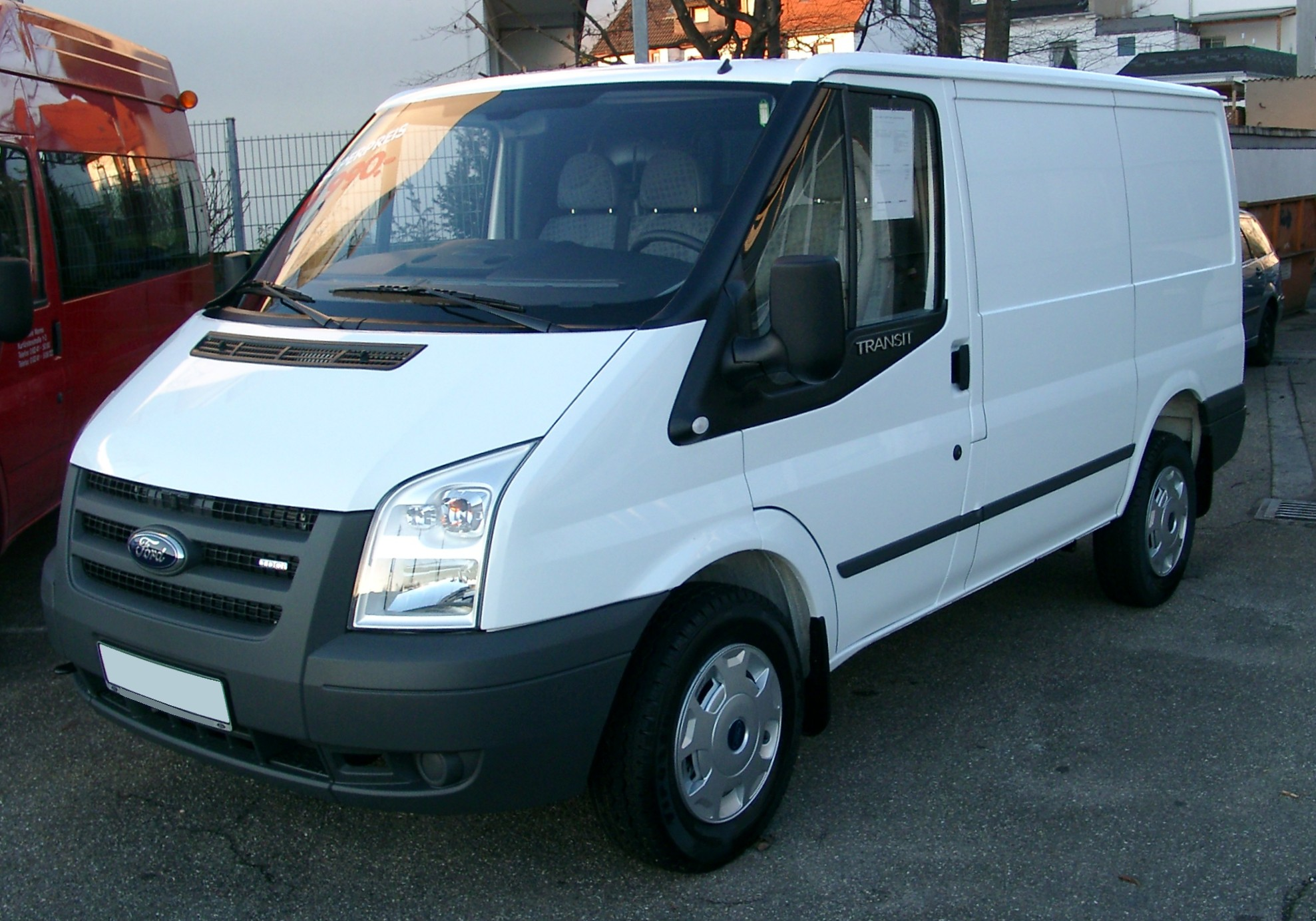 Ford Transit, 6. Generation